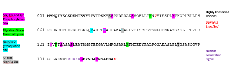 Conceptual Translation of the protein derived from the C8orf46 gene.